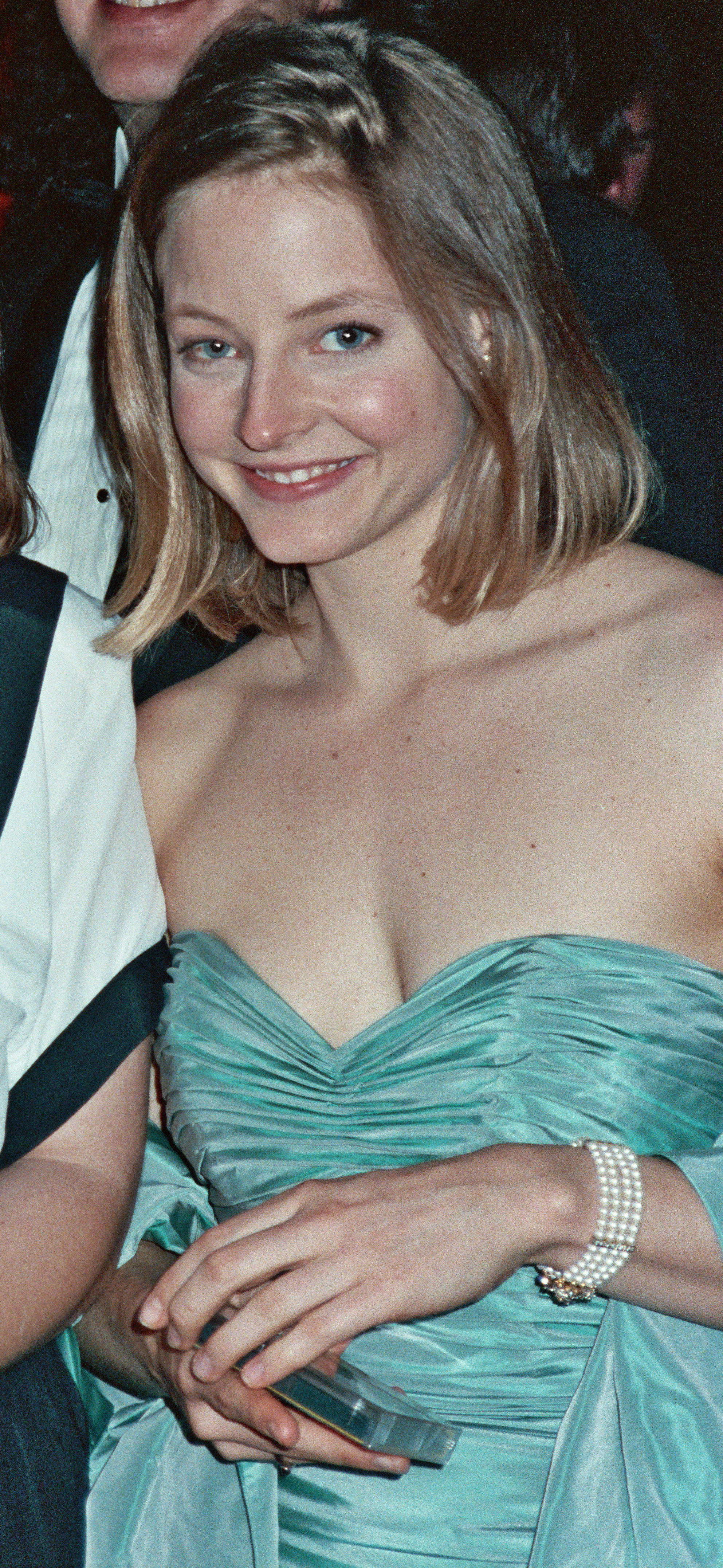 Photo taken at 61st Academy Awards March 29, 1989 - Governor's Ball